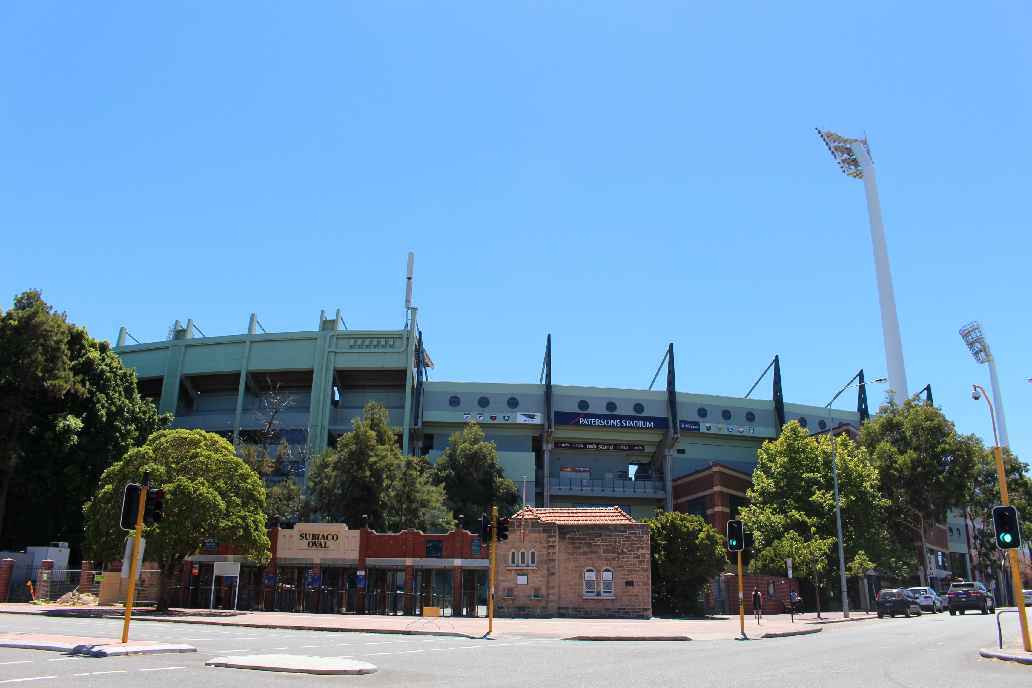 Subiaco Oval in Subiaco, Western Australia. Taken from the Haydn Bunton Dr and Roberts Rd intersection.